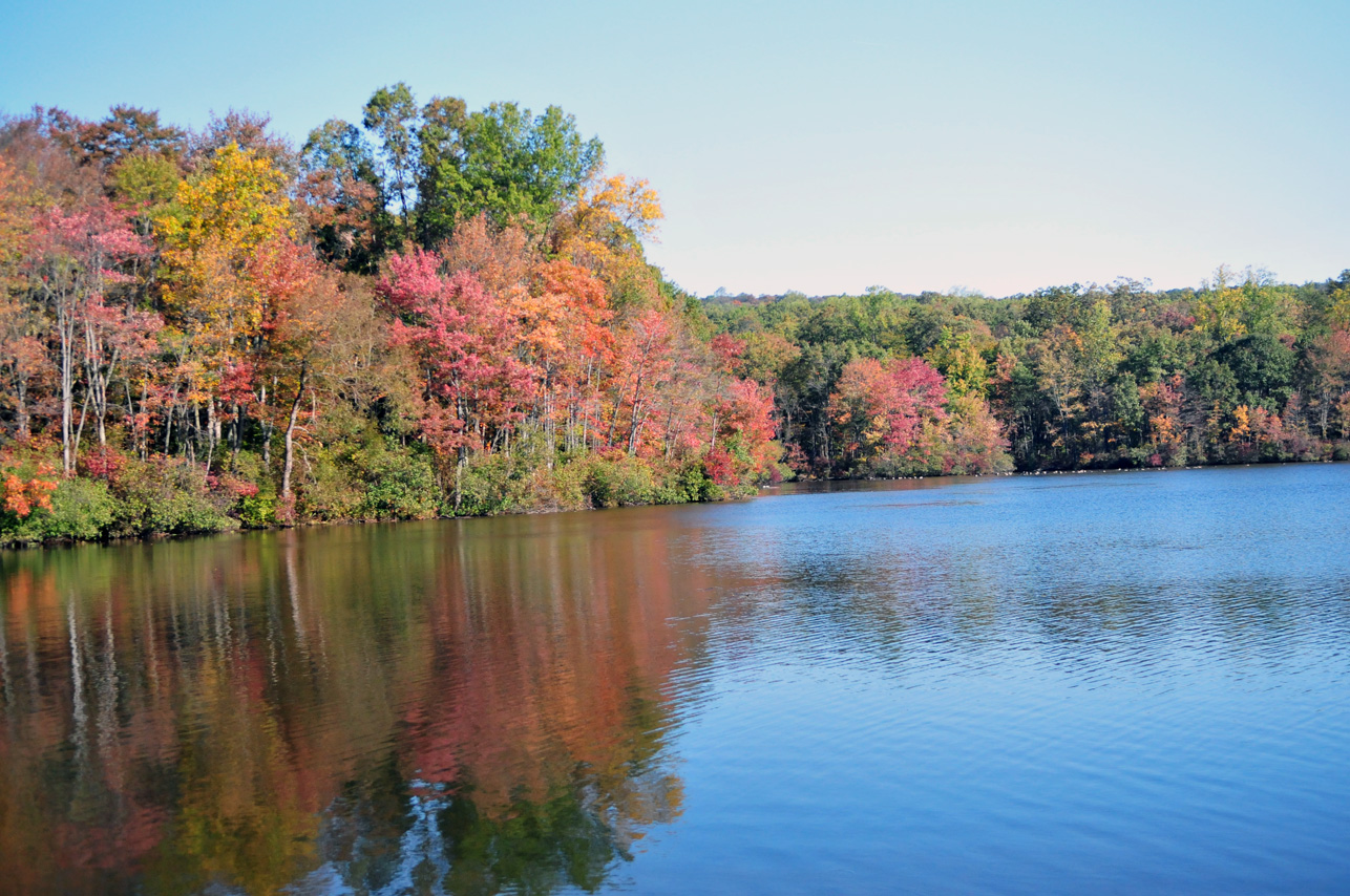 Fall 2010 - French Creek State Park, Chester County, PA.